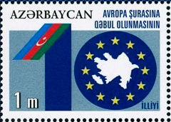 The 10th Ann. of Azerbaijan Republic joining to the Council of Europe.